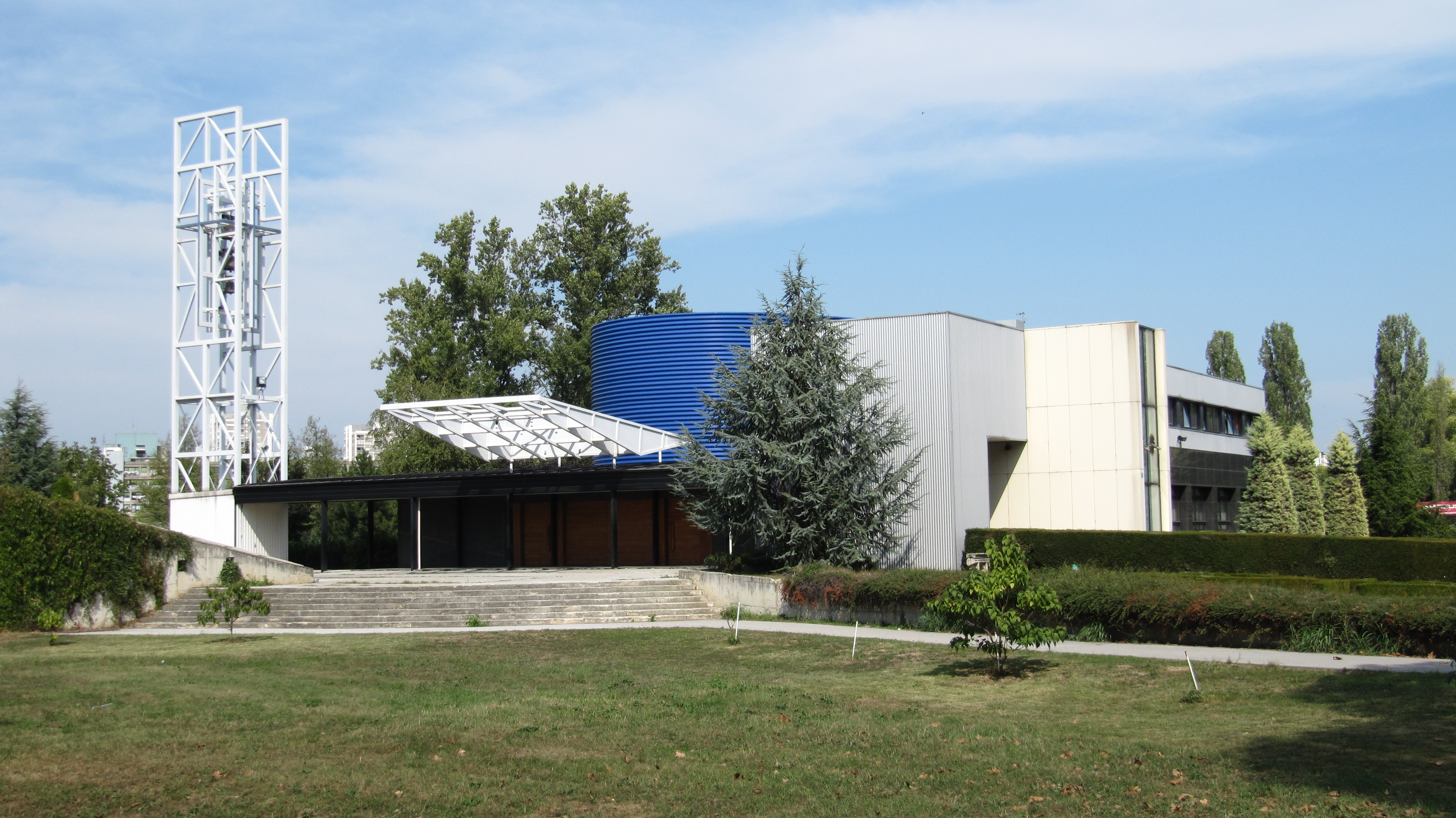 St. Matthew the Apostle and Evangelist church in Dugave neighborhood, Zagreb, Croatia.